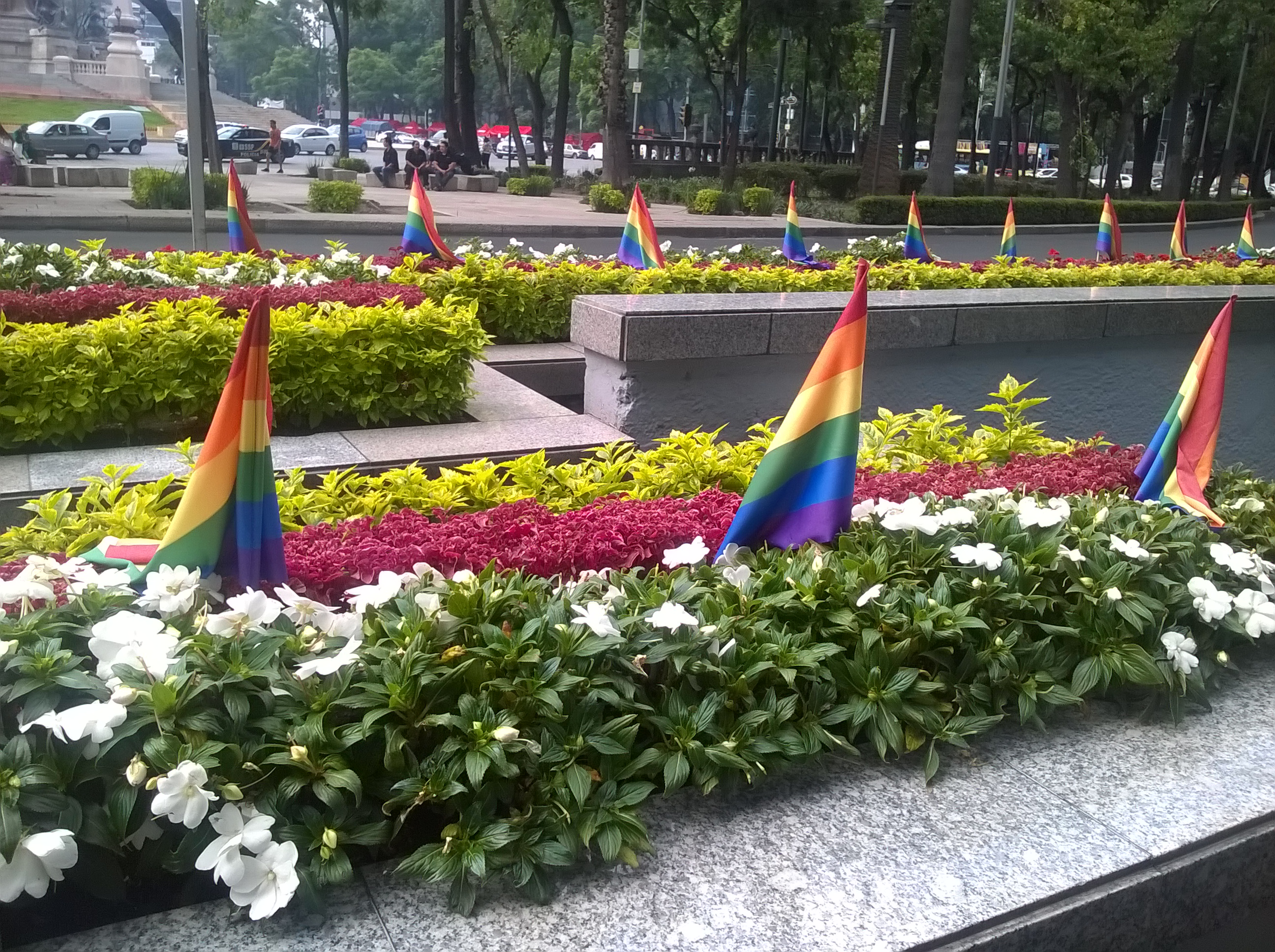 Flags on a building on the Mexico City Pride 2016